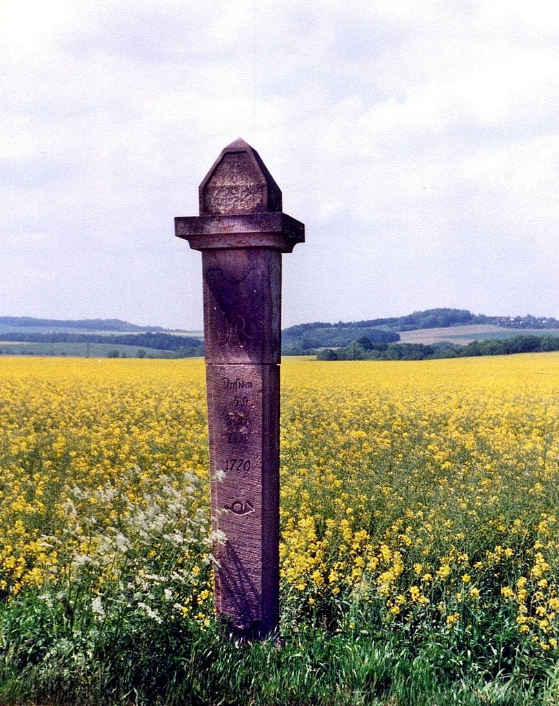 Nentmannsdorf: electoral saxonian postmile-stone from 1729 on the old post-route from Dresden to Prague.